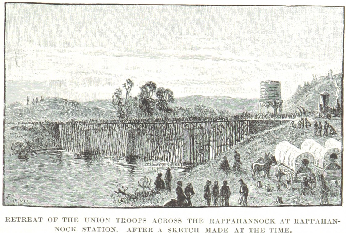 Union forces retreat after the First Battle of Rappahannock Station.